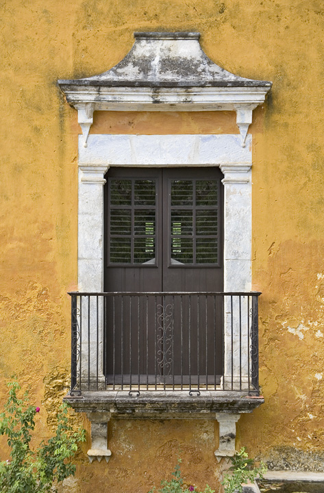 Balcony of The Hacienda Uayamon